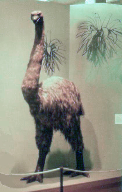 Reconstruction of a Moa in the Dominion Museum in Wellington, New Zealand. The feathers, which were used in the reconstruction, were Kiwi feathers and Emu feathers The yellow-orange colour of the photo was caused by the effect of the room's lighting. Edit: colour balance adjusted. This photo was taken, by me (Figaro), during June, 1980.